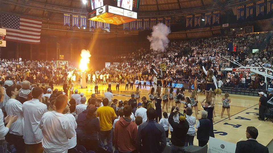 A full Brick Breeden Fieldhouse cheers the player introductions at the 2017 men's basketball game between Montana State and the University of Montana